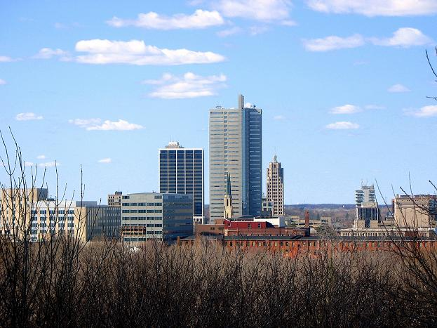 View of the downtown Fort Wayne skyline, looking north, from Reservoir Park.